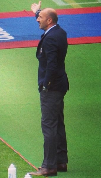 Ranko Popović from FC Tokyo